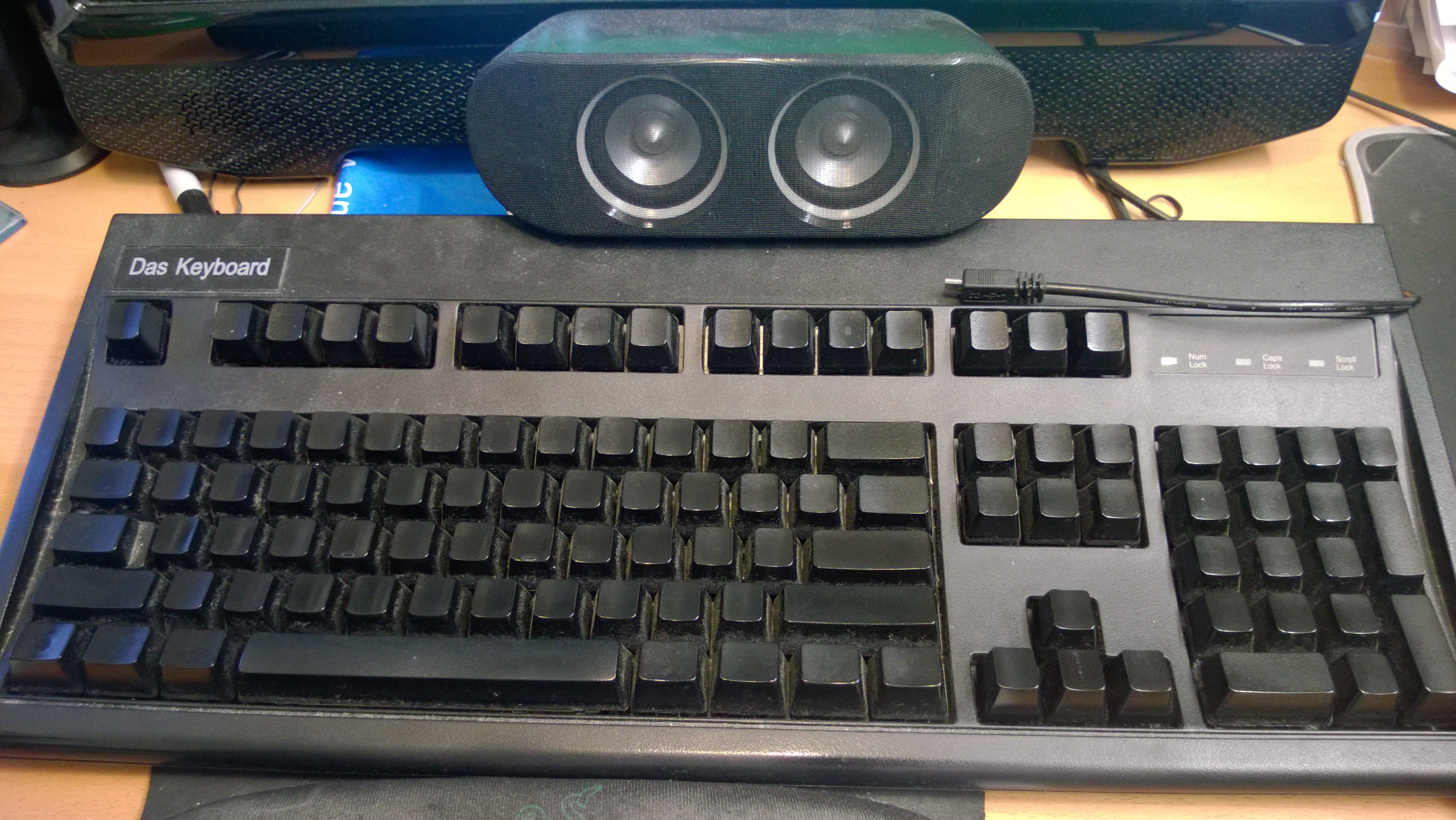 A picture of a Das Keyboard version one.